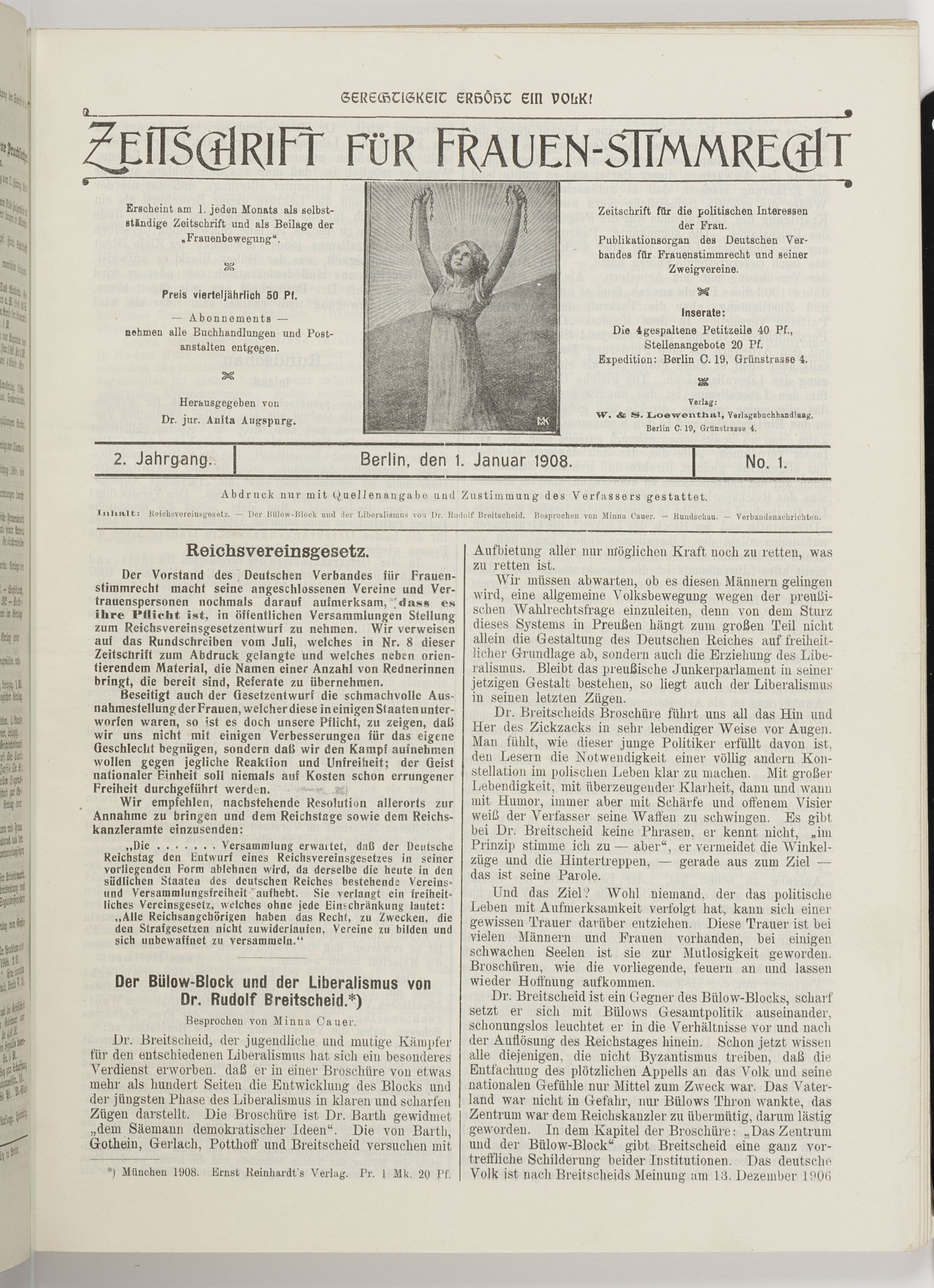 "Zeitschrift für Frauen-Stimmrecht" (Journal of Women's Suffrage), Vol. 2, No. 1, 1 January 1908. Article "Reichsvereinsgesetz". Photo of issue in repository of Archiv der deutschen Frauenbewegung (Archive of German Women's Movement), Kassel. Photographer: Horst Ziegenfusz on behalf of Historisches Museum Frankfurt (Historical Museum Frankfurt).